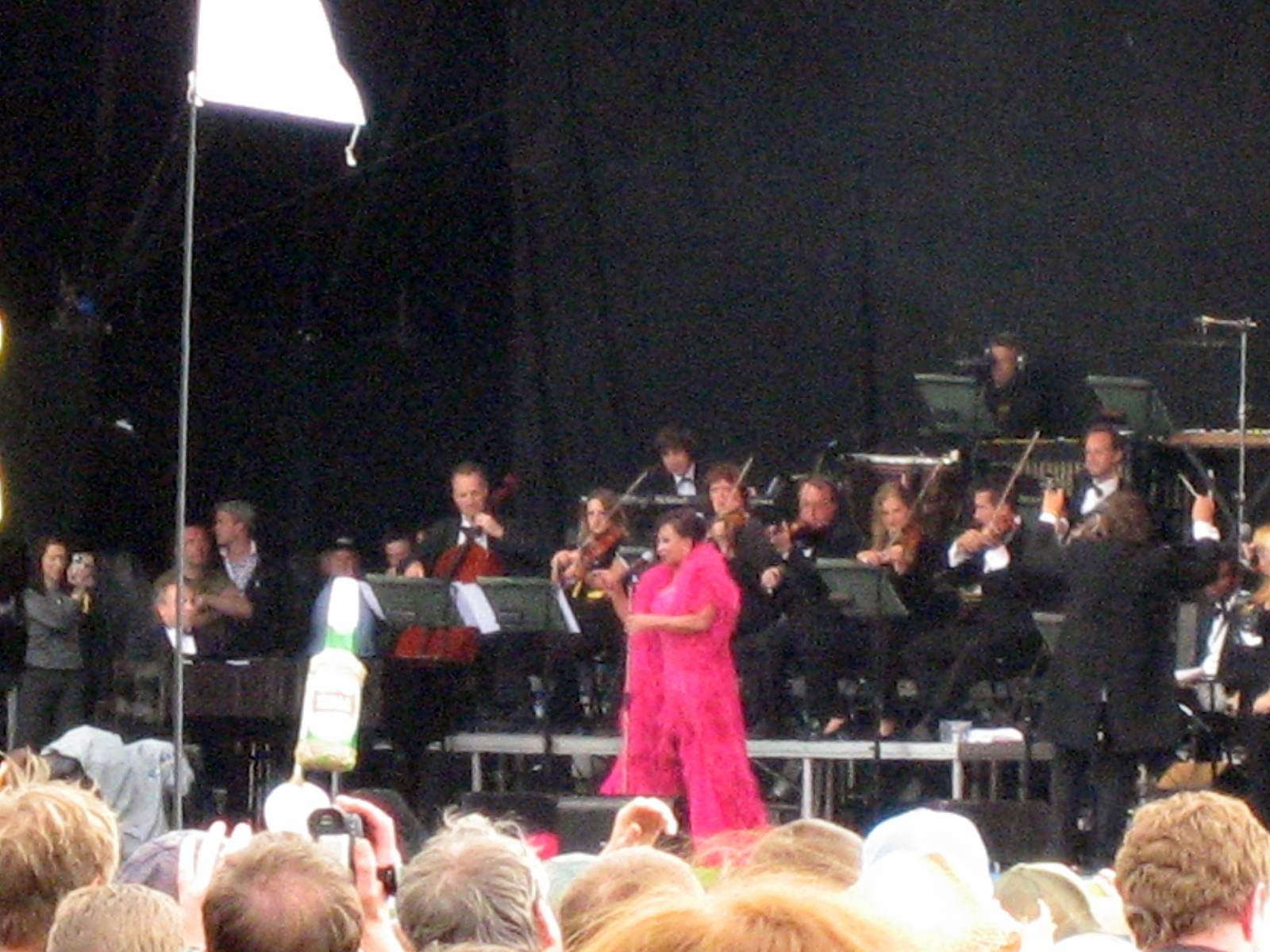 Shirley Bassey at the Glastonbury Festival, 2007.